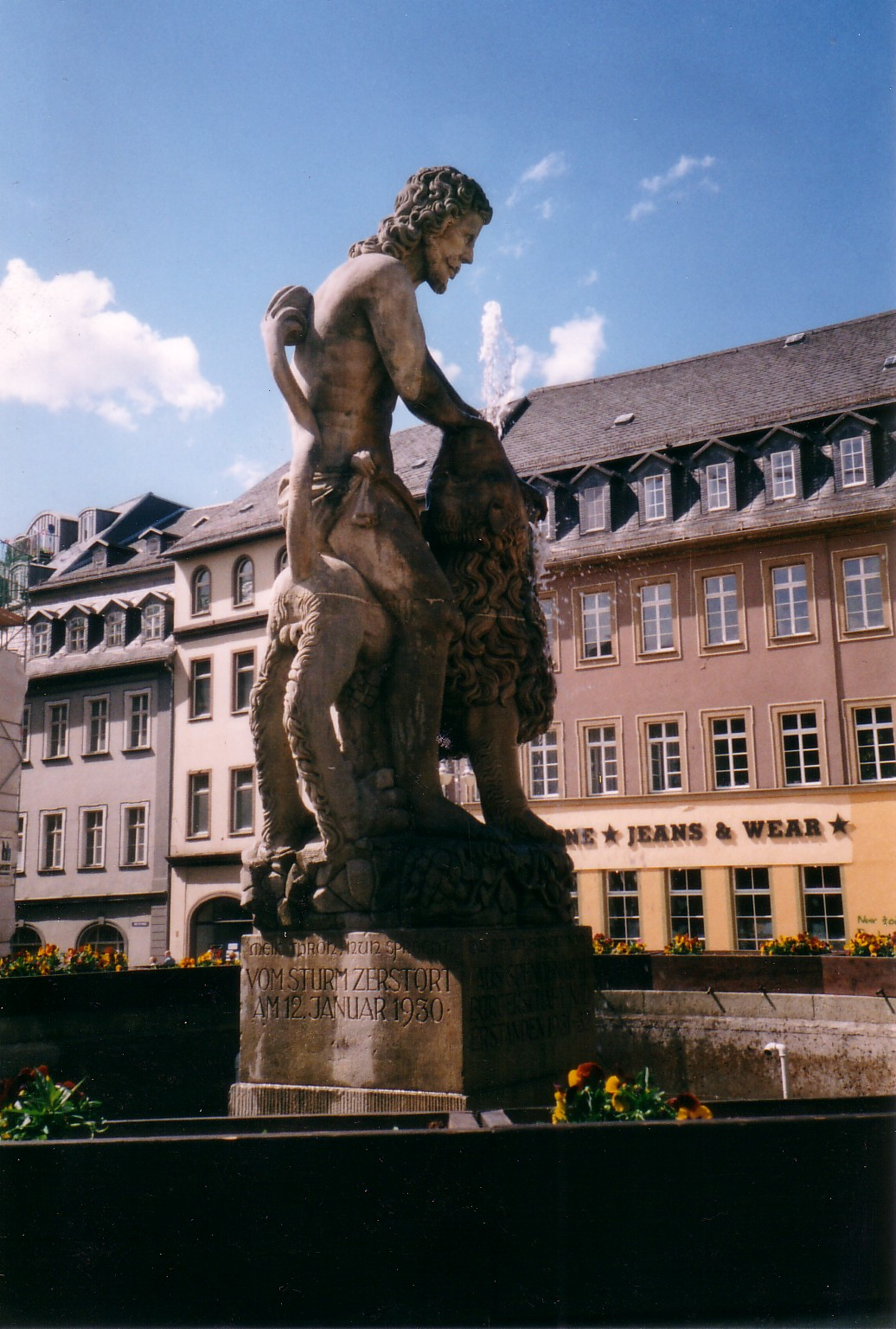 Simson Fountain in Gera, Germany